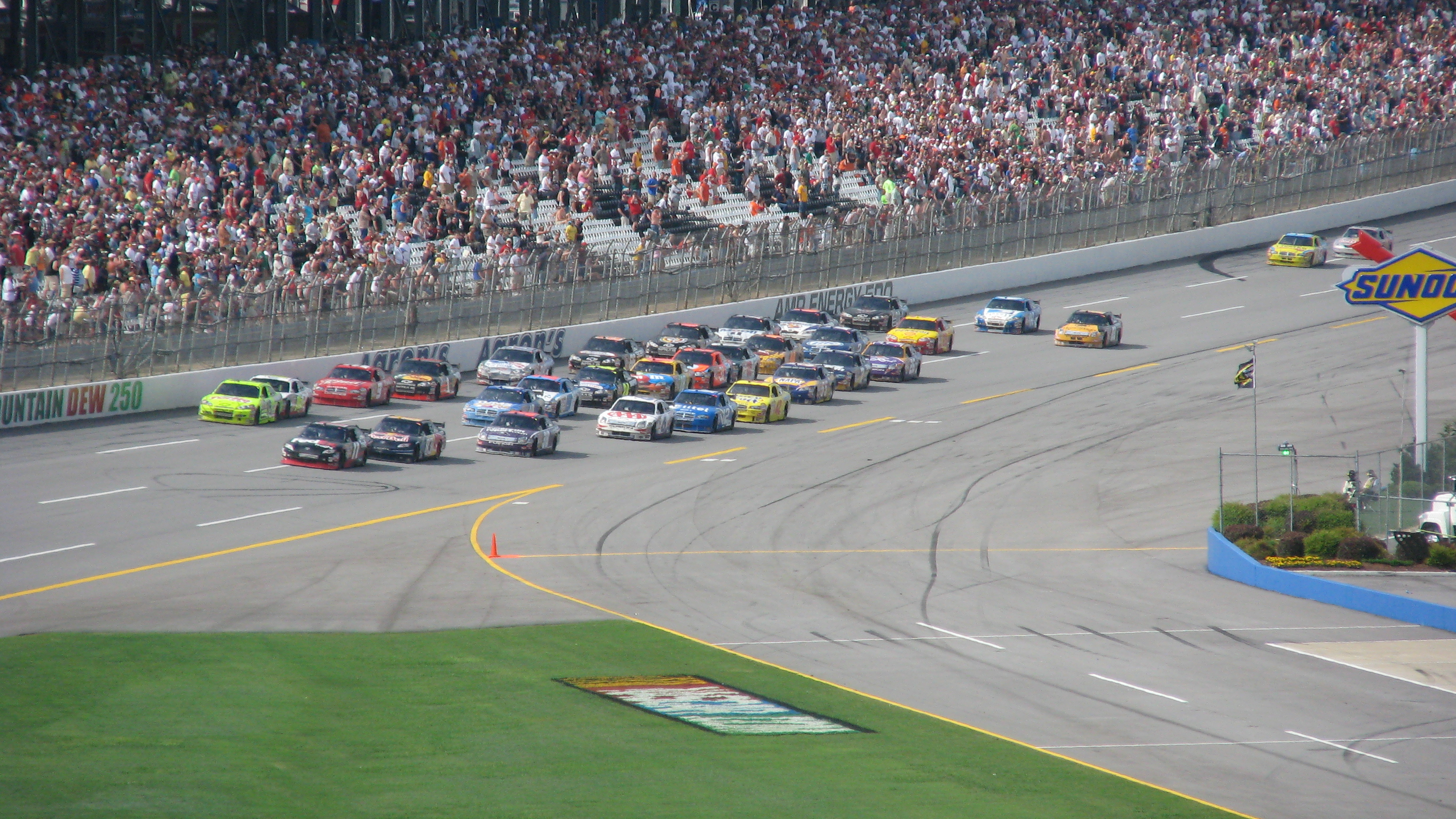 2008 Aaron's 499 at Talladega Superspeedway